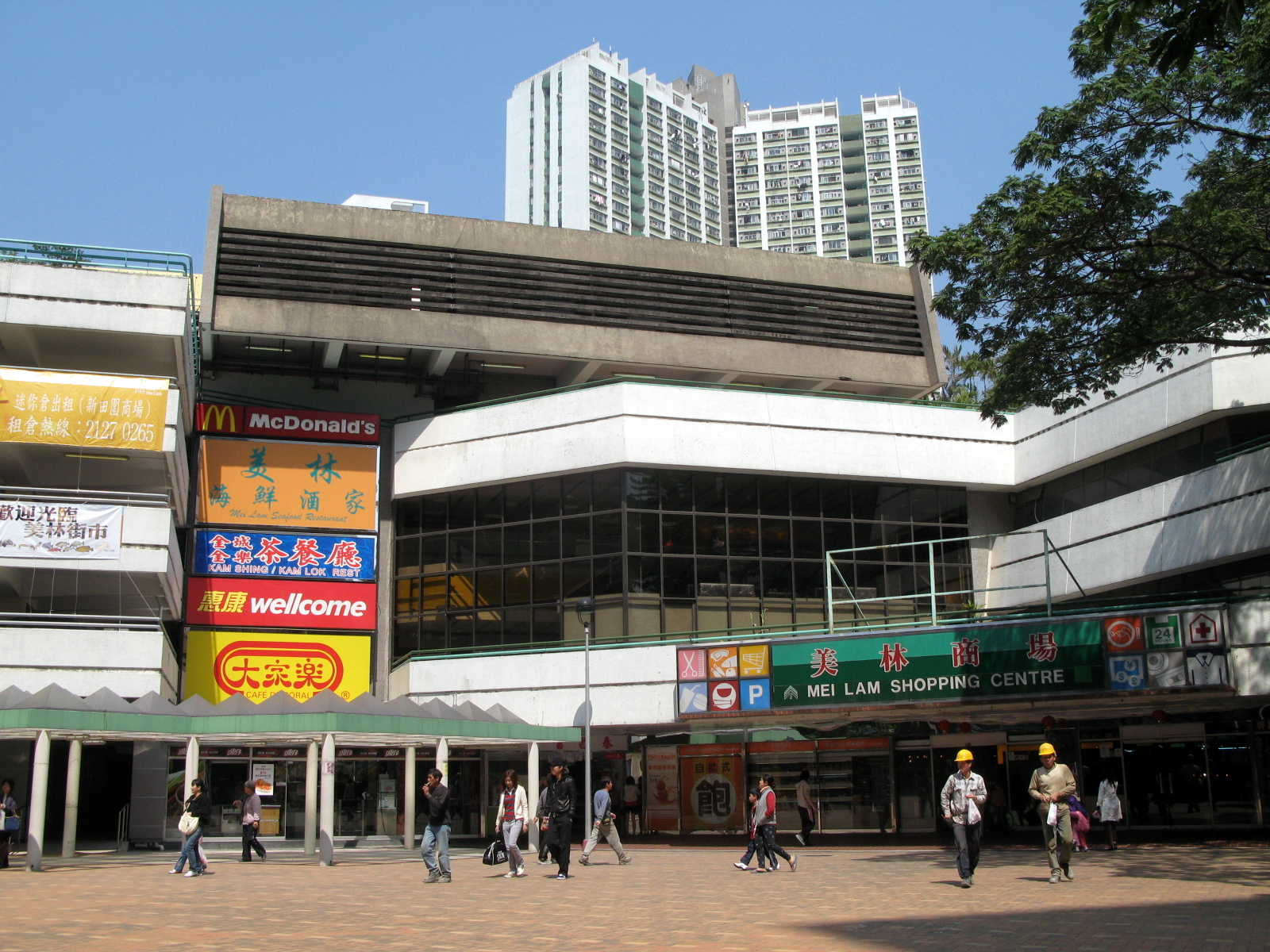 HK Mei Lam Shopping Centre